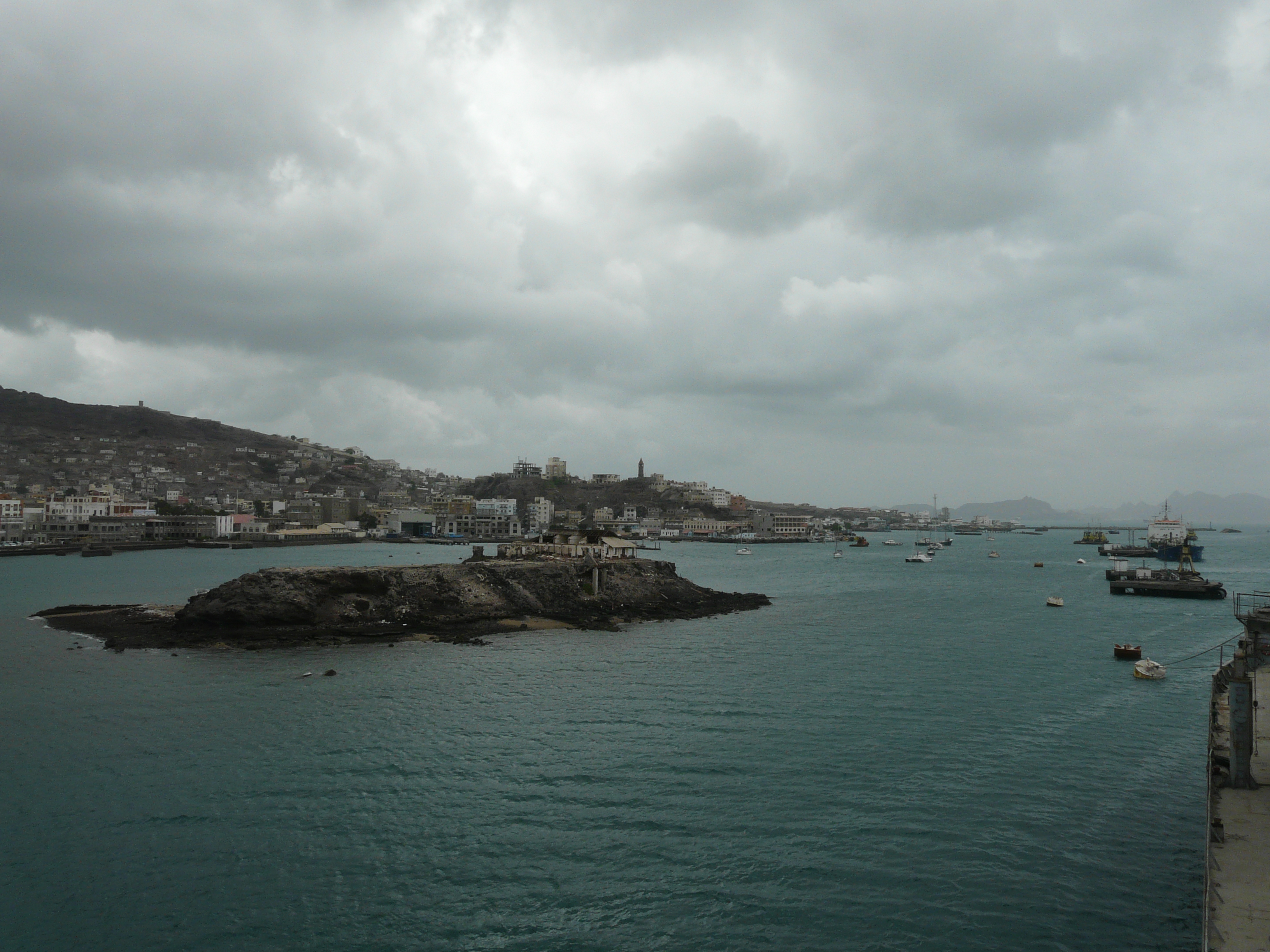 Big Ben Aden. View from the inner roadstead. 13 of February, 2010.